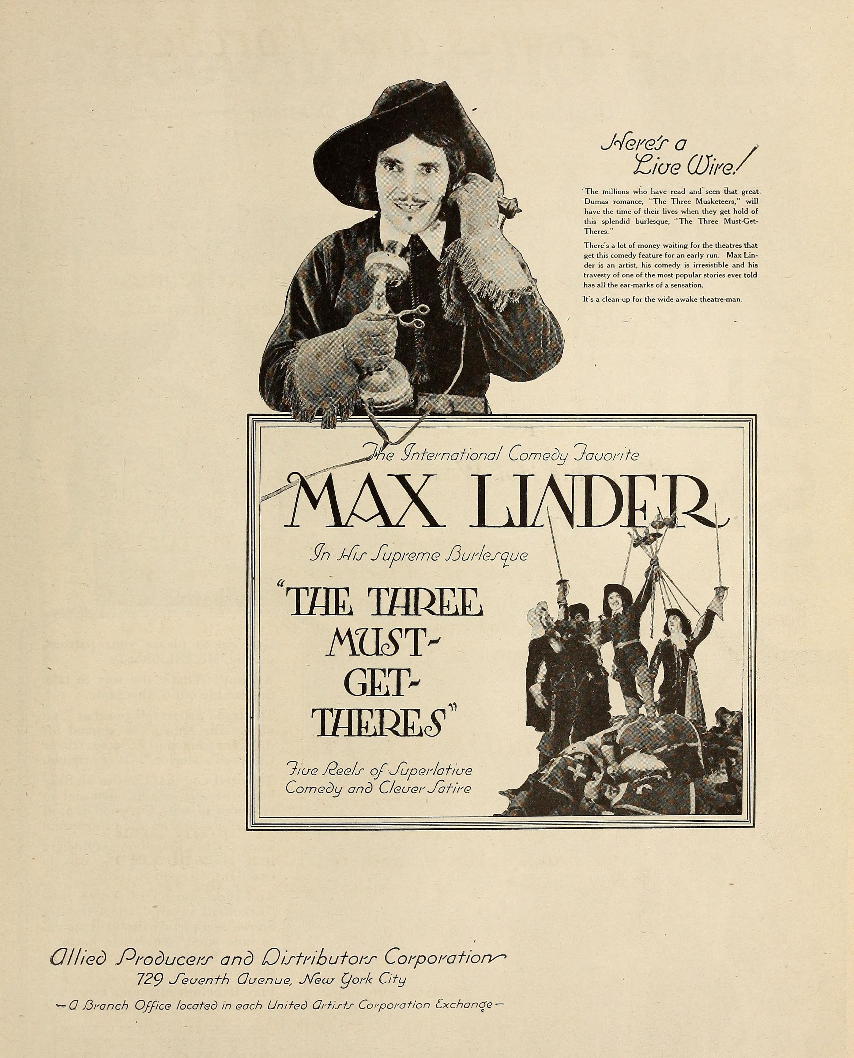 Advertisement in Exhibitor's Trade Review for the film The Three Must-Get-Theres (1922).